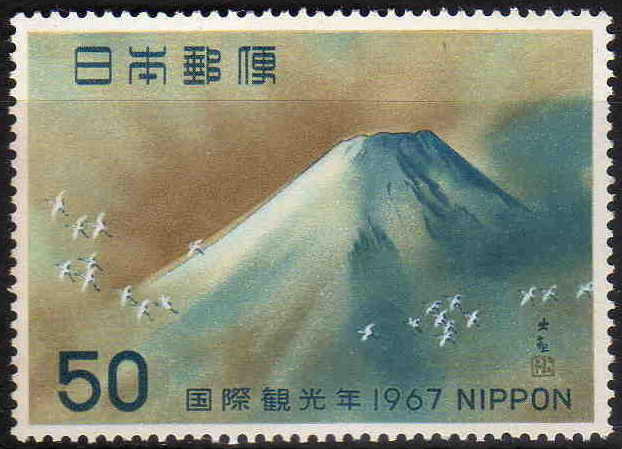 Yokoyama Taikan Mt'Fuji Art Painting.This stamp does not pass from publication for 50 years. However, the art work which became the original picture of the stamp passes from the author death for 50 years. Therefore it is the second creation thing of the work of PD, and it is PD. This stamp does not pass from publication for 50 years. However, the art work which became the original picture of the stamp passes from the author death for 100 years. Therefore it is the second creation thing of the work of PD, and it is PD.